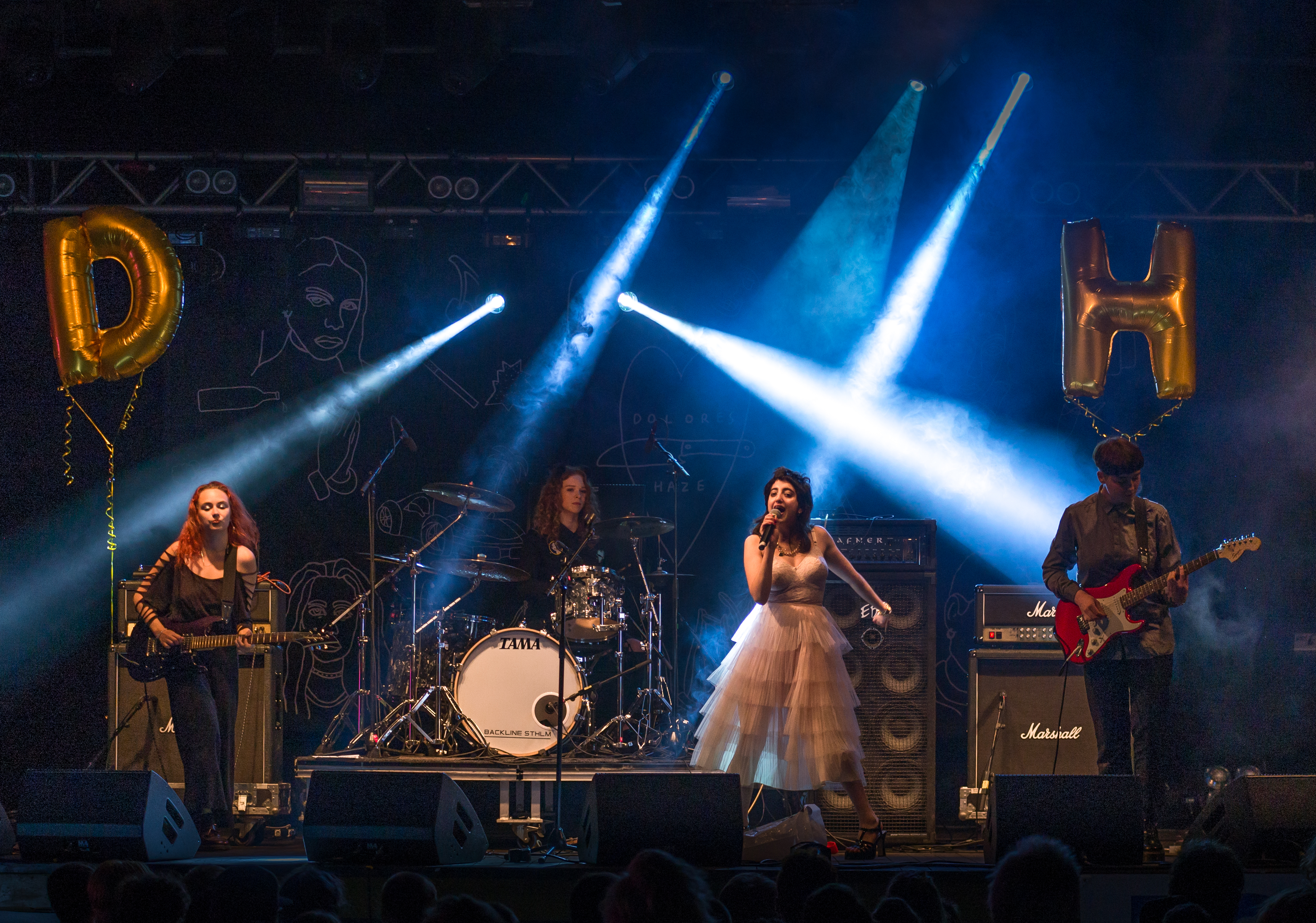 Dolores Haze in Kungsträdgården in Stockholm 2016.